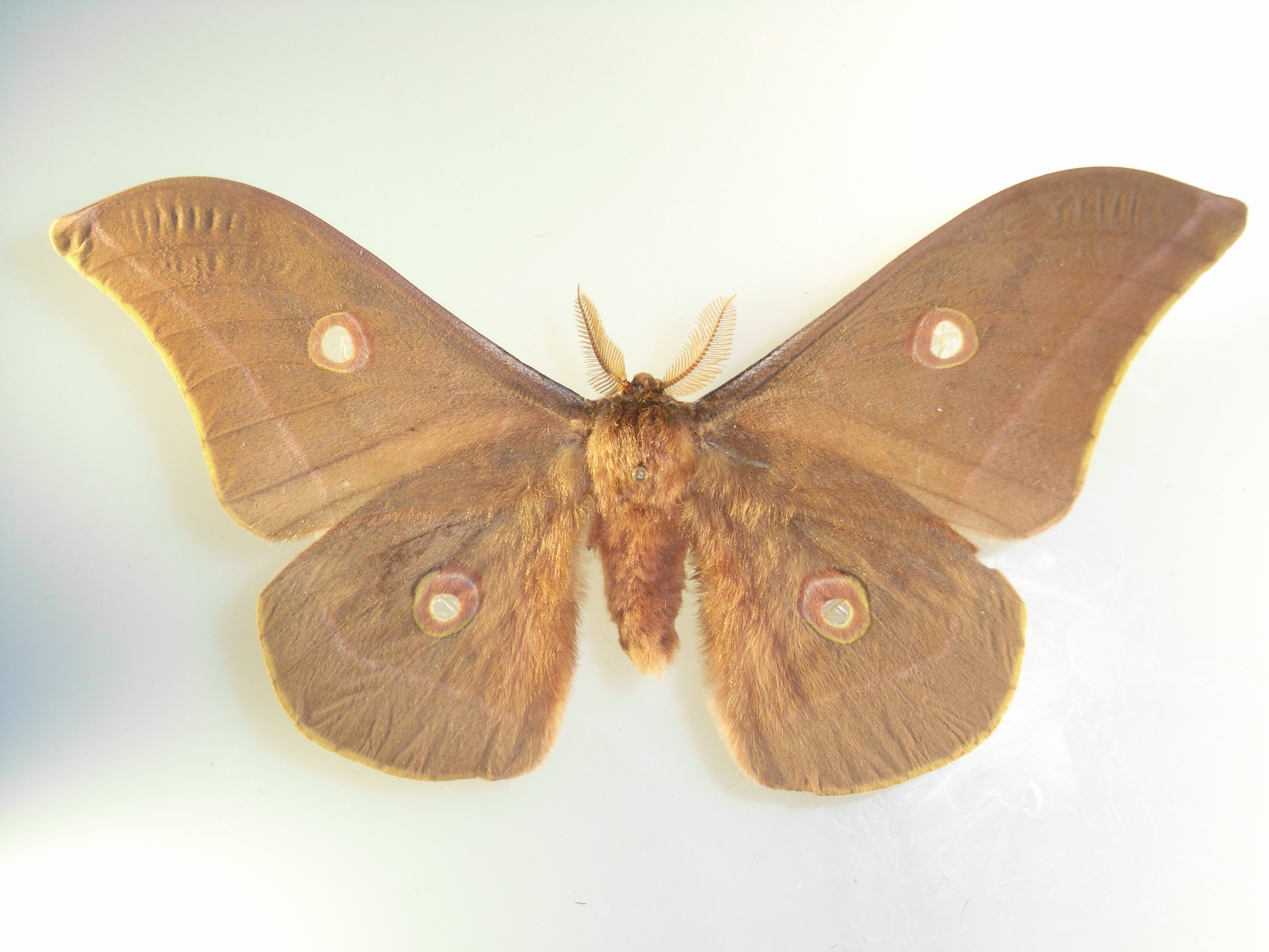 Antheraea harti Ex coll. Felix Stumpe